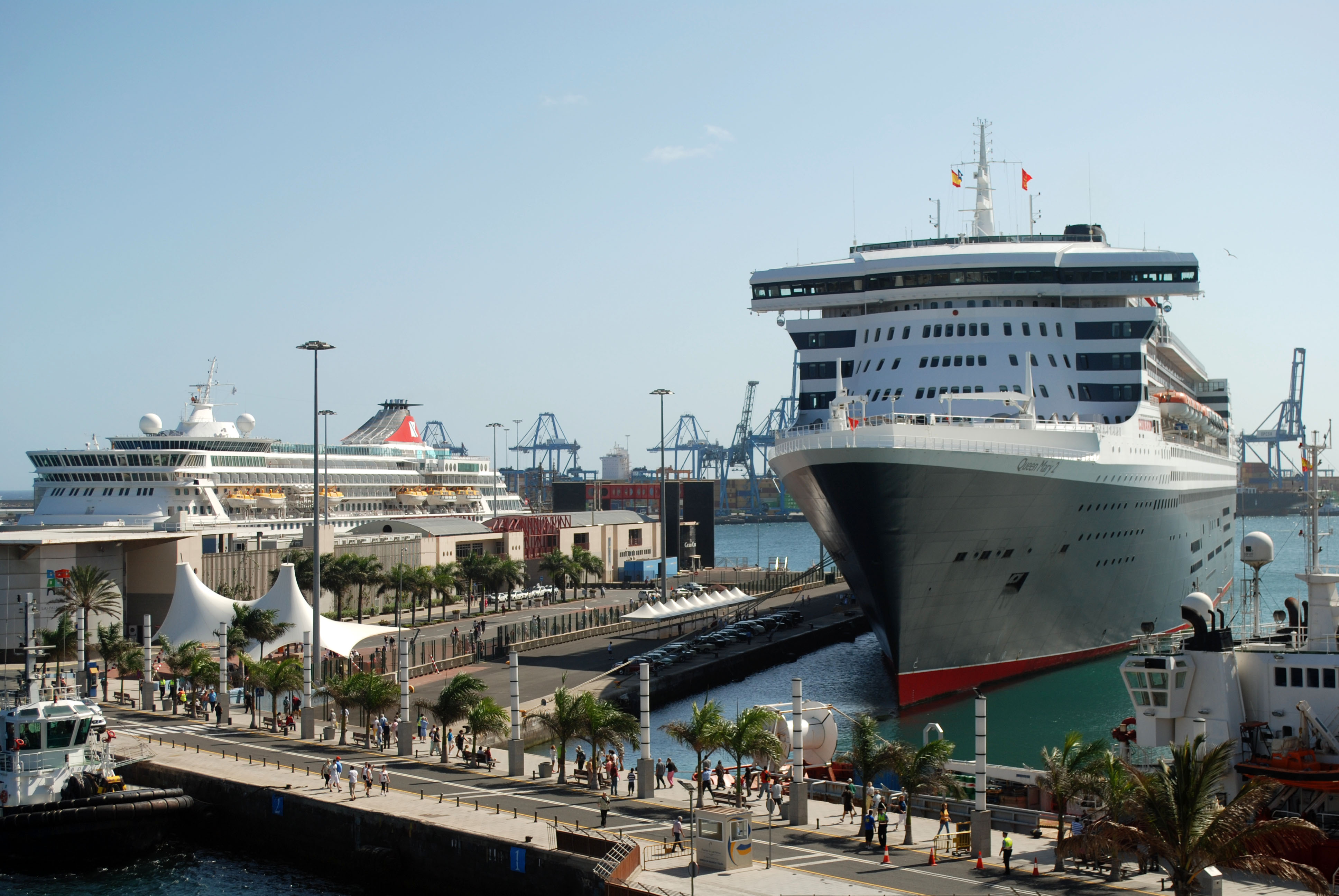 Port of La Luz and Las Palmas with Queen Mary 2.